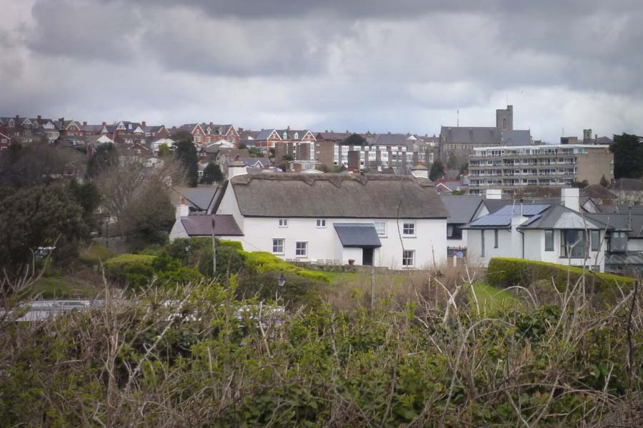 Whitehouse Cottage, the oldest inhabited house in Barry, Vale of Glamorgan, with the western end (left hand side) dating to the late 16th century.